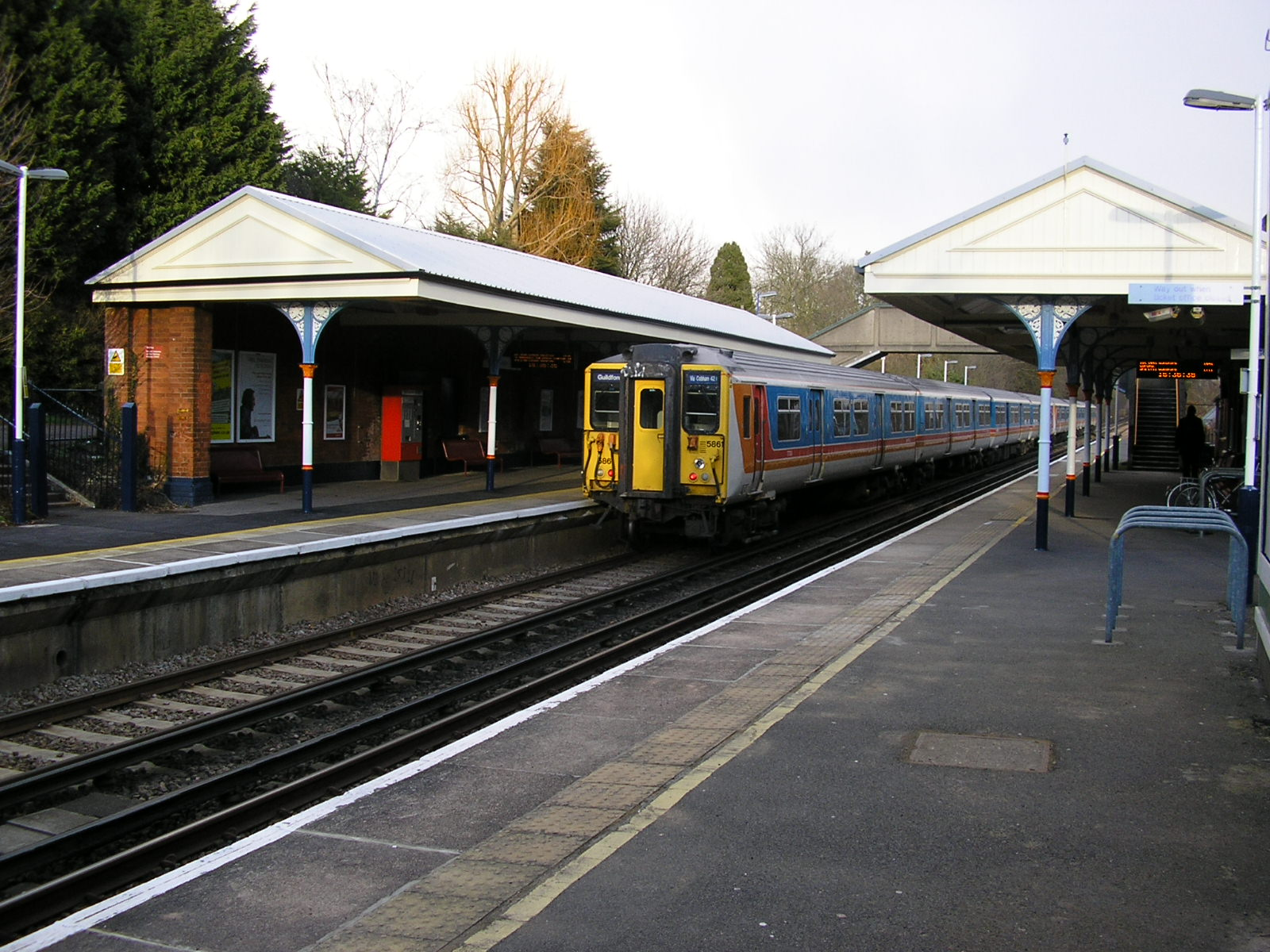 another view Clandon railway station, in West Clandon, Surrey at The 16:36 train to Waterloo via Epsom is just departing.